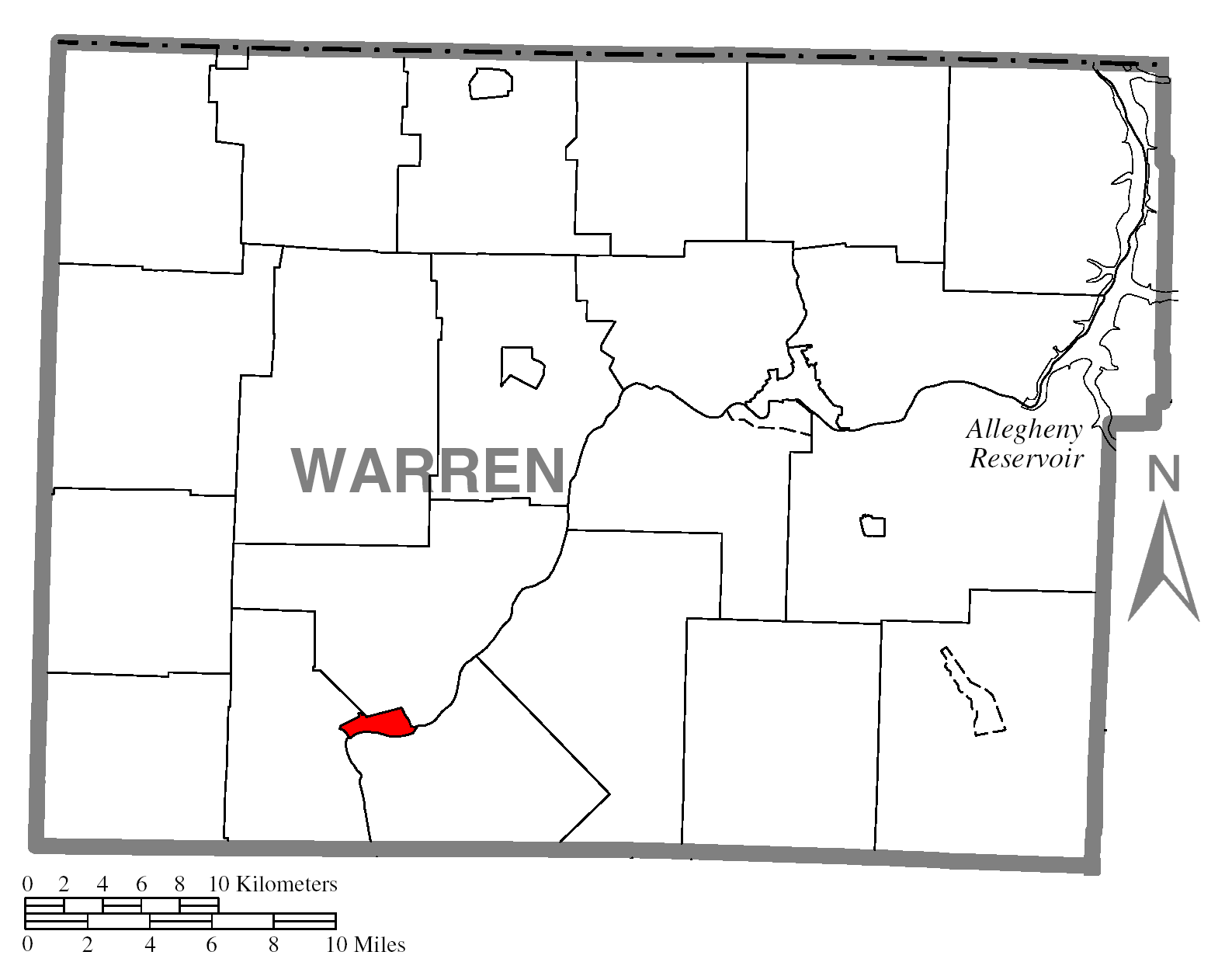 Map of Warren County higlighting Tidioute.